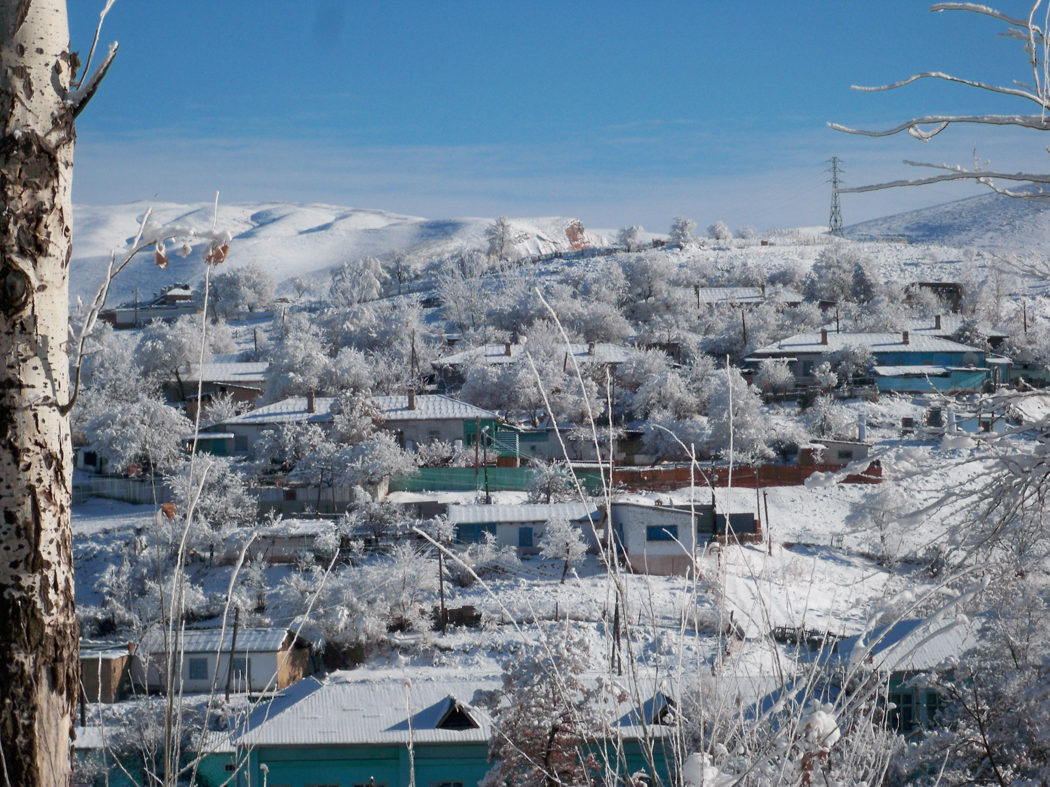 Winter in Sulukta.